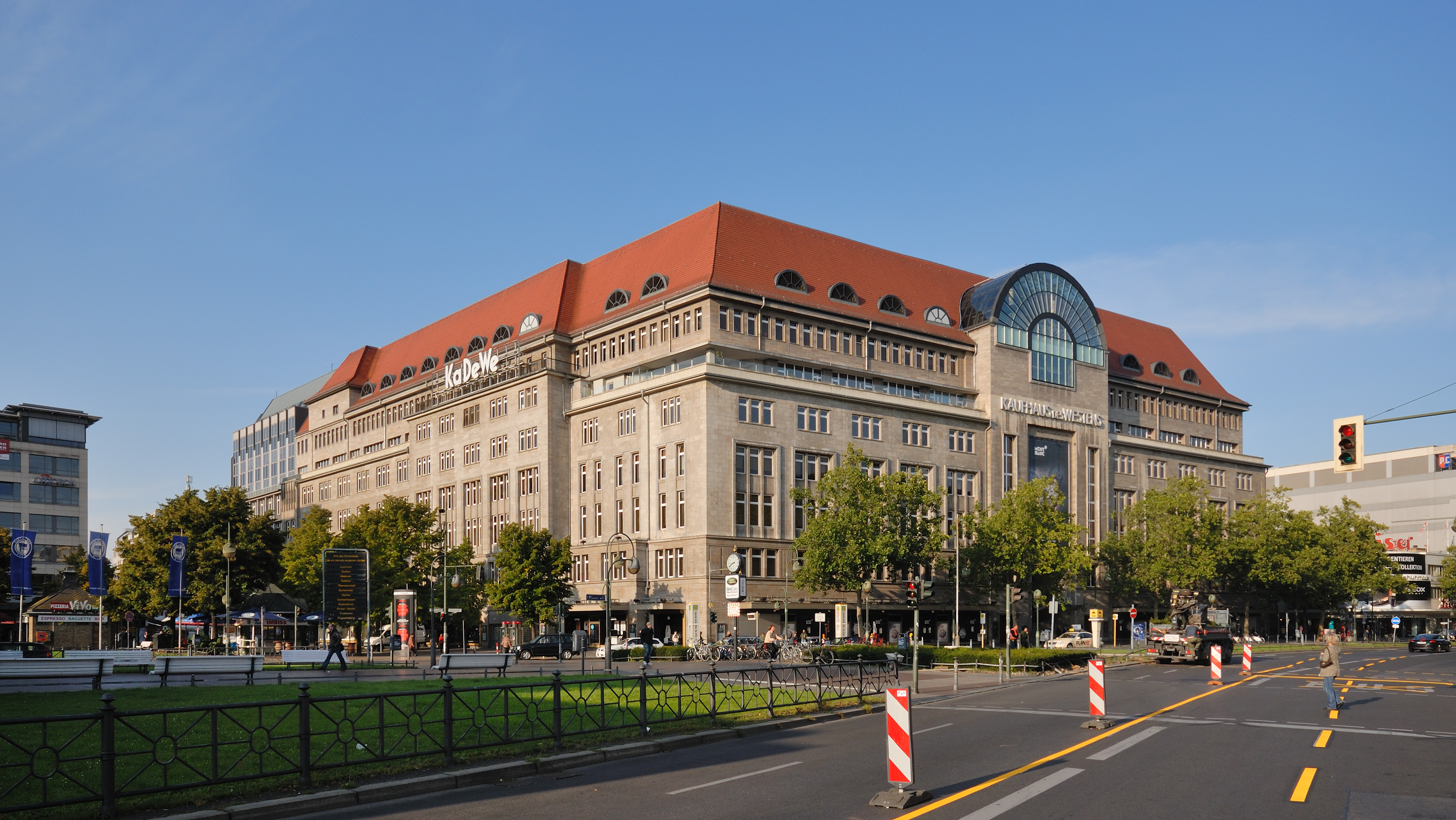 Kaufhaus des Westens, Berlin, seen from northeast.